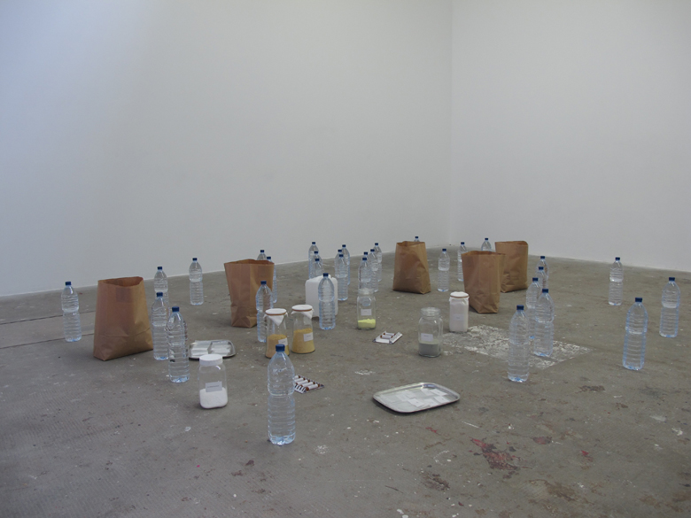 Installation body count, stéphane Arcas, all the chemical components to make a 71 kg human body in the right proportions. LiveinyourHead Galery, Geneva 2011